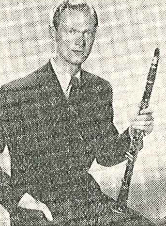 Tore Westlund (1910-1995), Swedish jazz clarinetist and saxophonist.